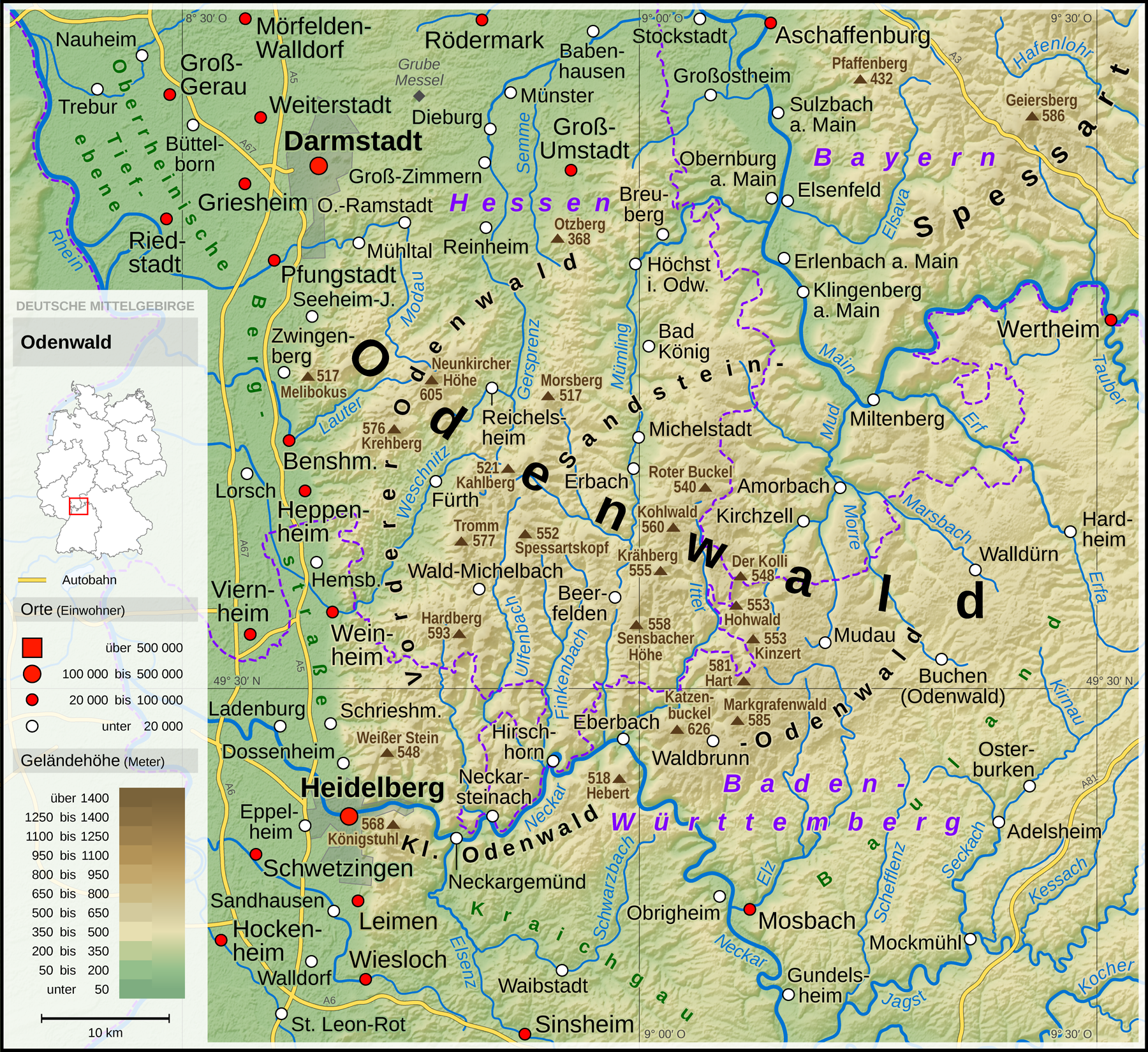 Topographic map of the Odenwald